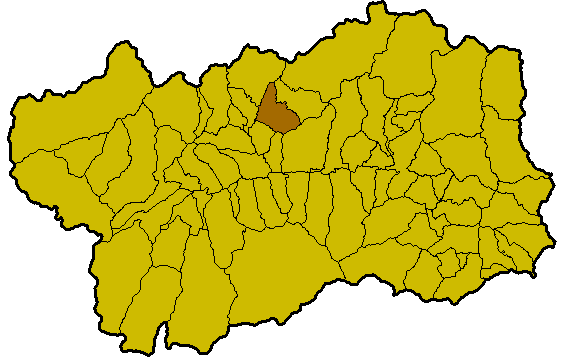 Location map of Valpelline within Aosta Valley.